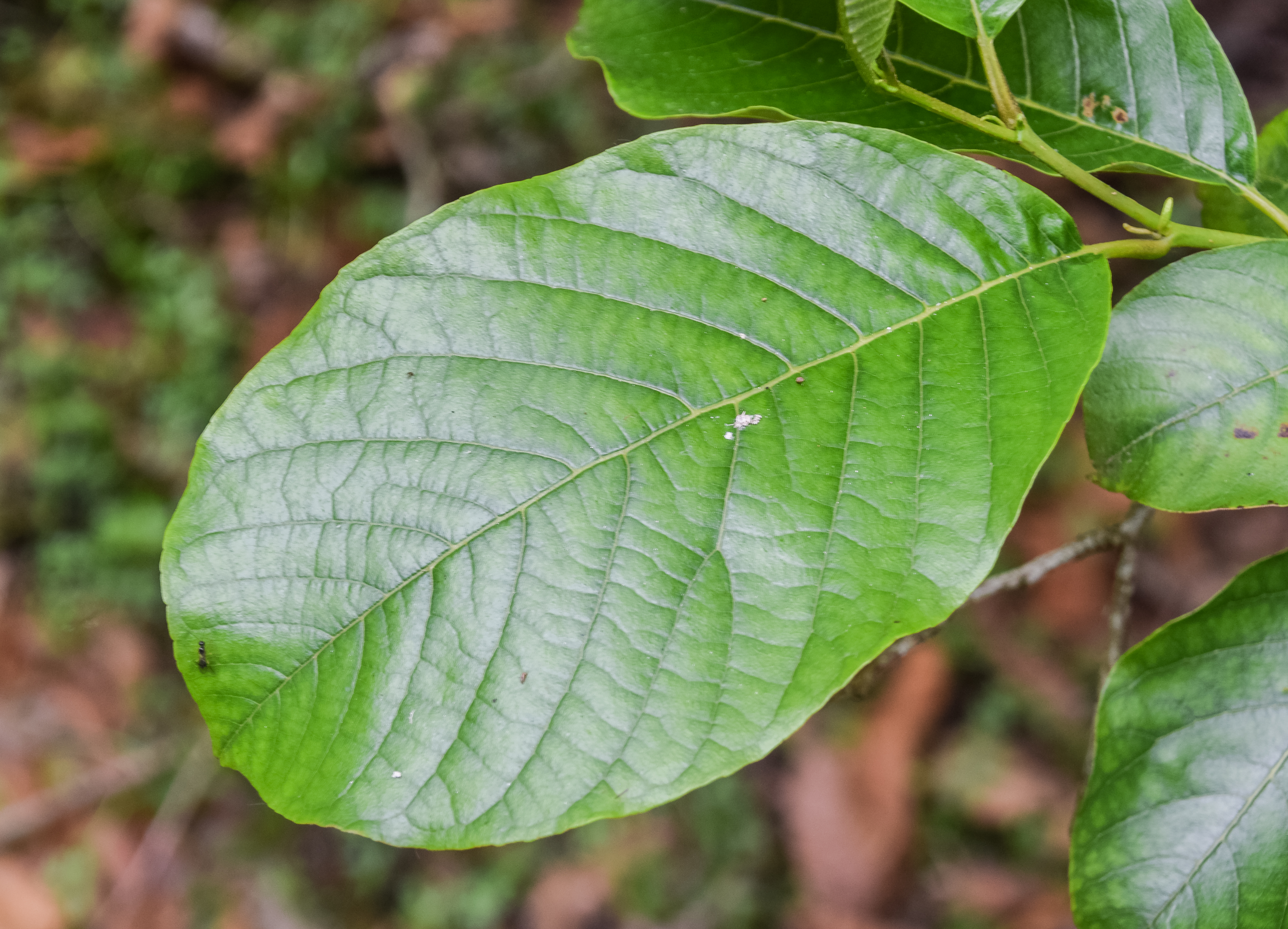 Leaf of Alnus nepalensis in Hackfalls Arboretum, Gisborne Region, New Zealand